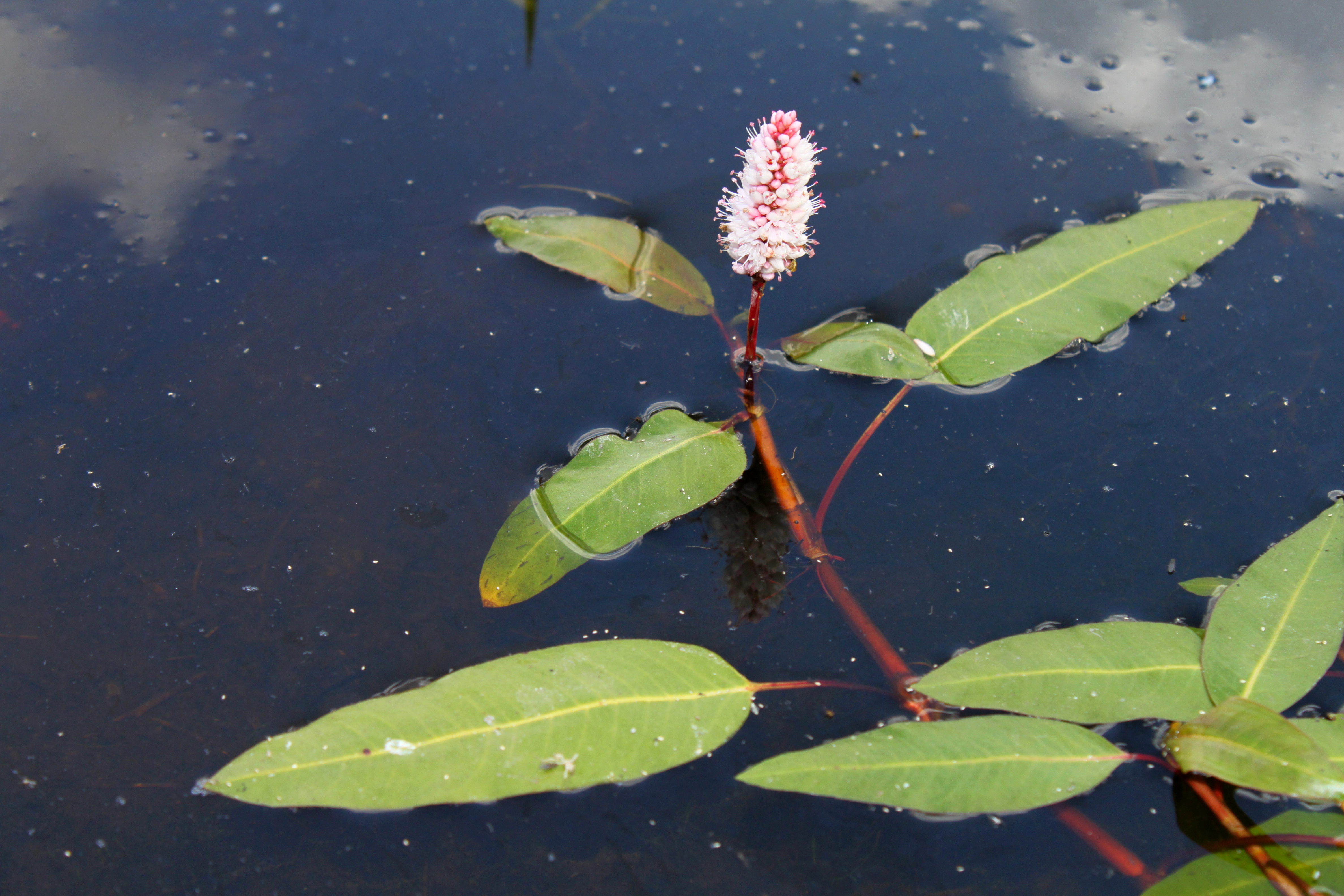 Persicaria amphibia in Marki, Poland